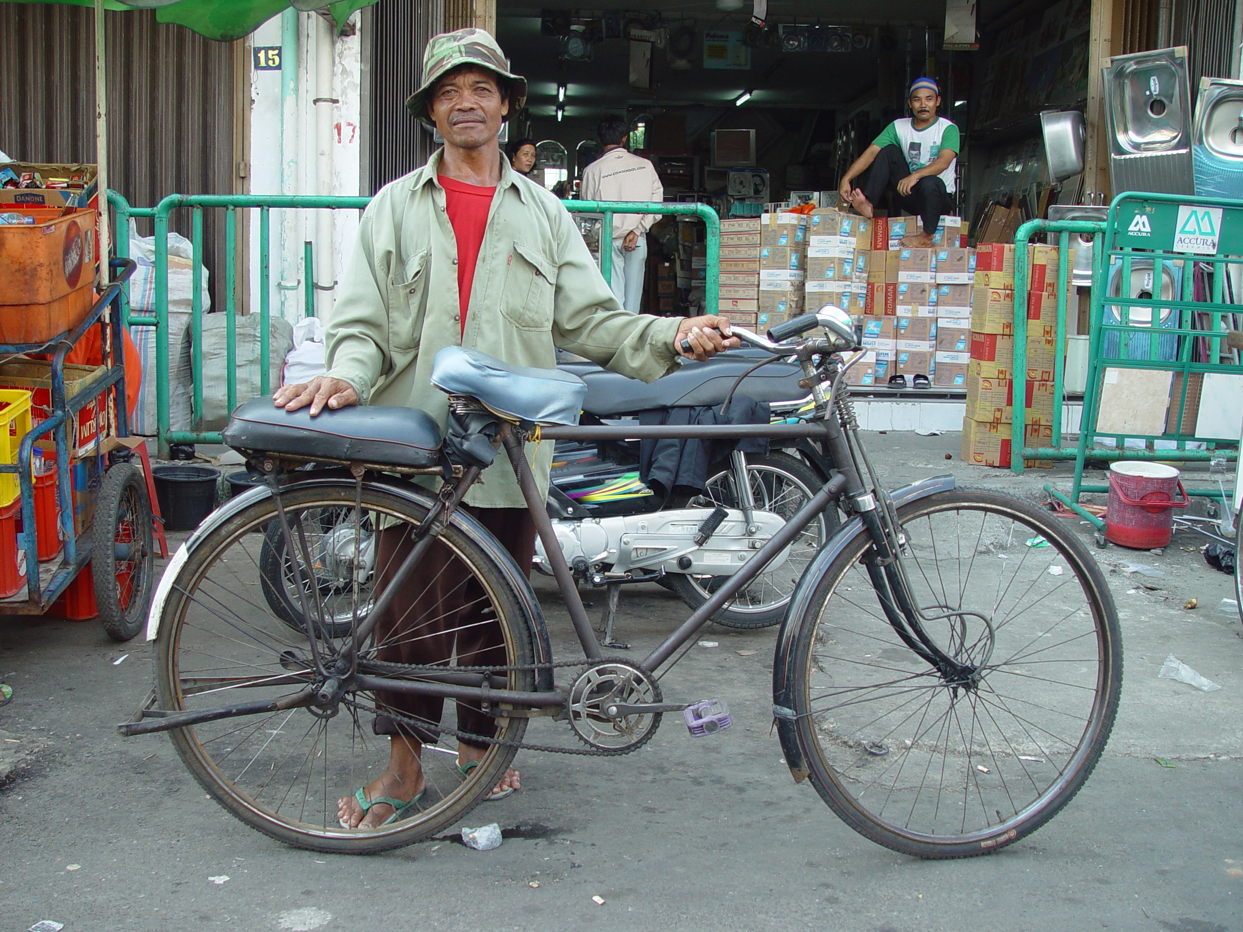 Bike Taxi (Ojek Sepeda), Jakarta Indonesia.